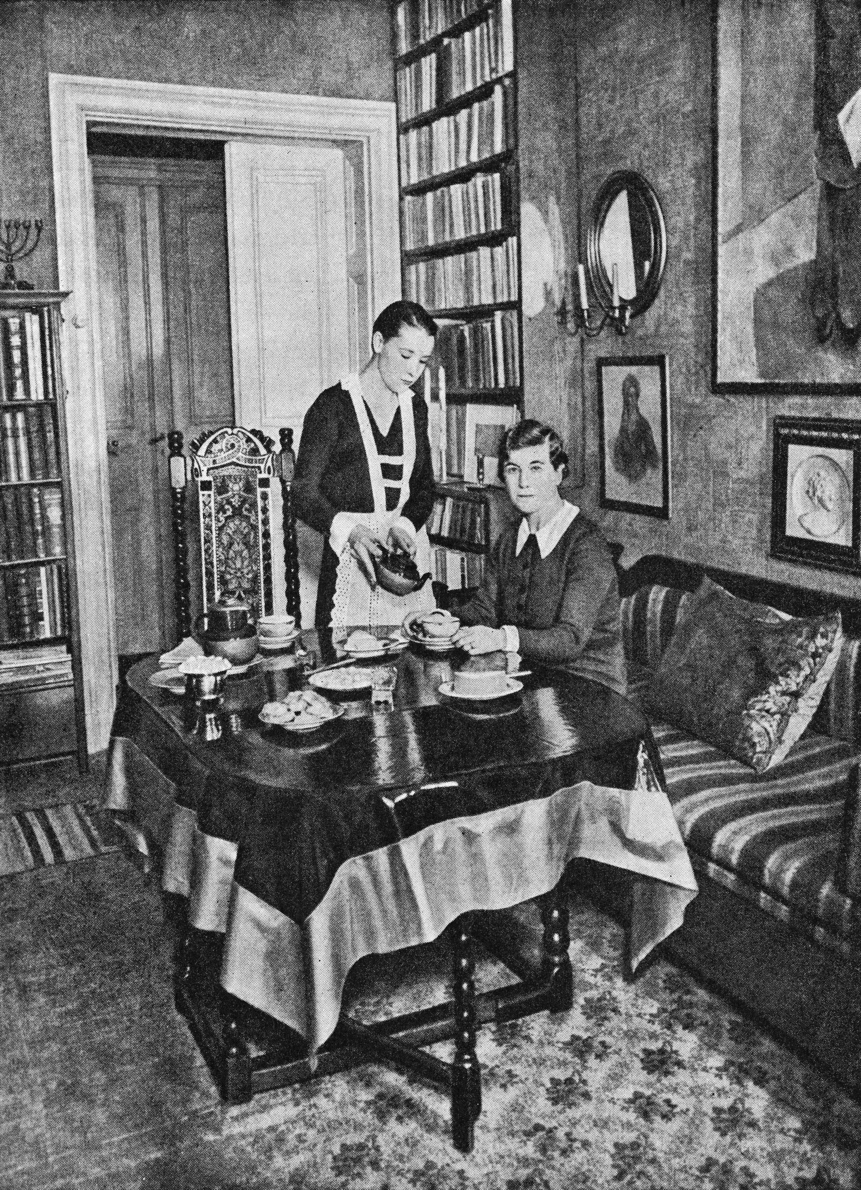 Swedish author Agnes von Krusenstjerna in her home.